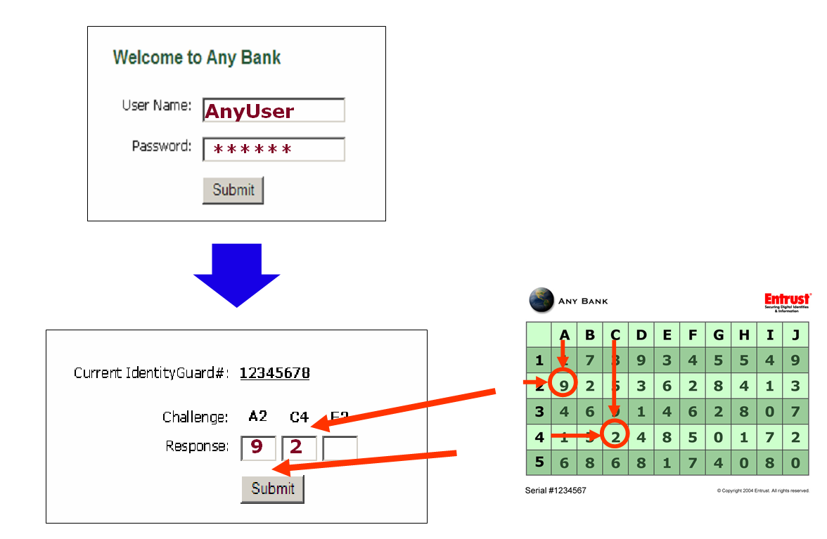 Bingo Card pour l'authentification forte